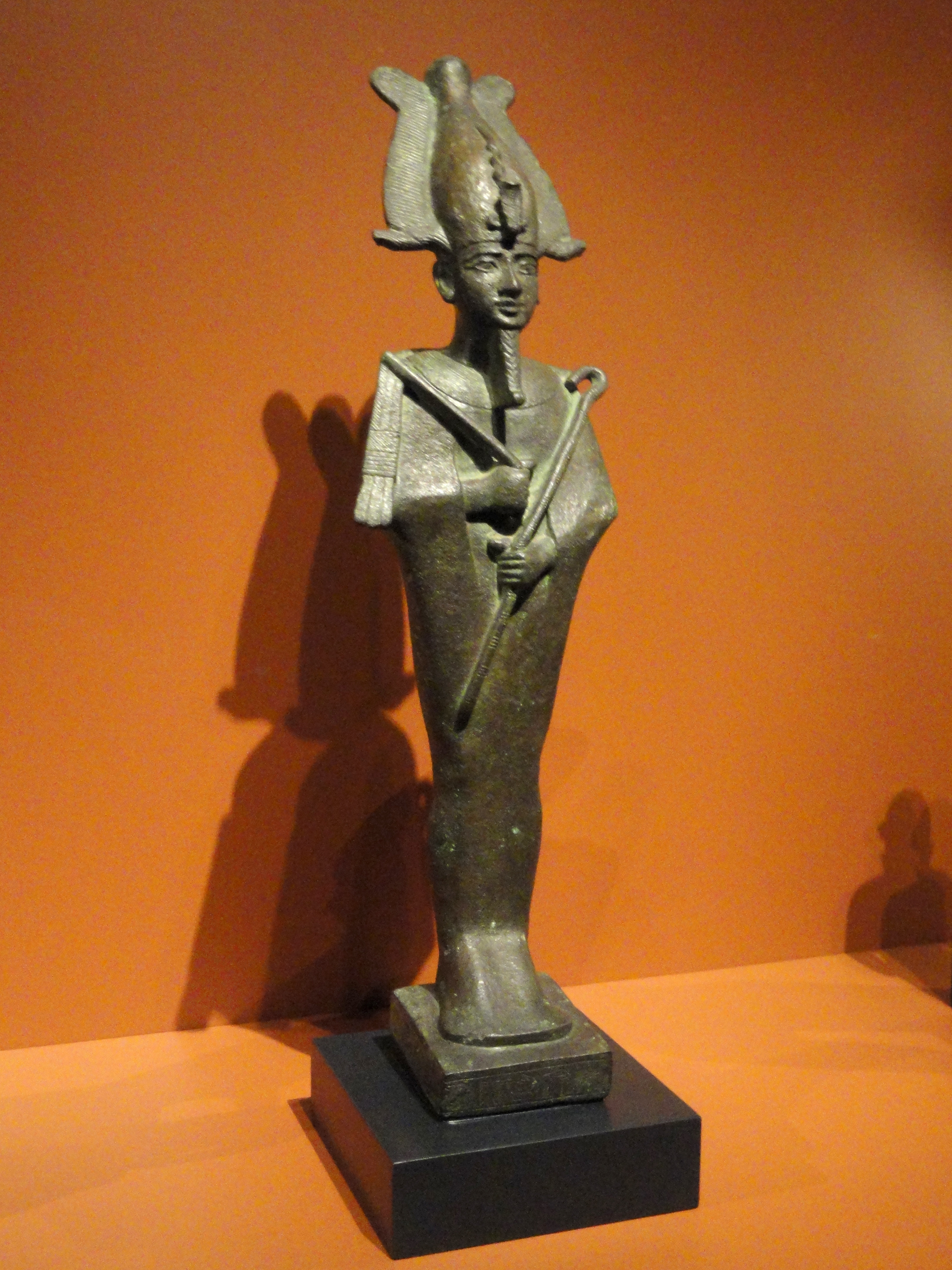 Exhibit in the Nelson-Atkins Museum of Art, Kansas City, Missouri, USA. ; I took this photograph and release it into the public domain.